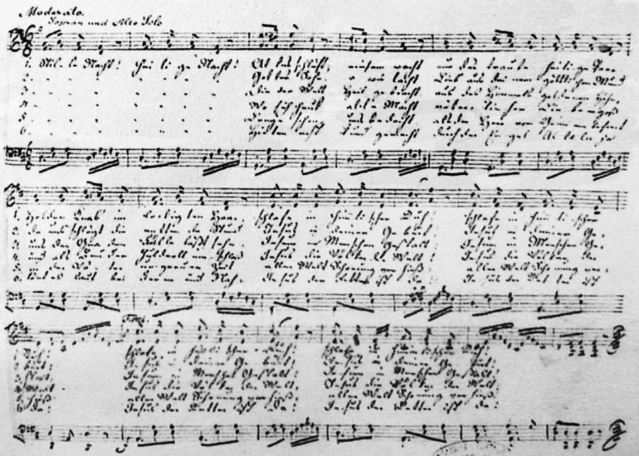 The Christmas song Stille Nacht, autograph (ca. 1860) by Franz Xaver Gruber (1787–1863). Photographed by Benutzer:Mezzofortist.